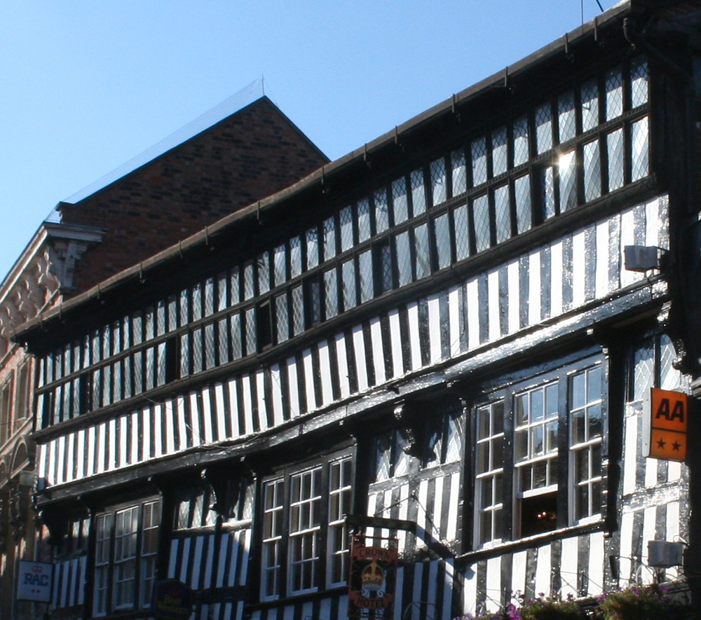 Crown Hotel, Nantwich, Cheshire (detail)